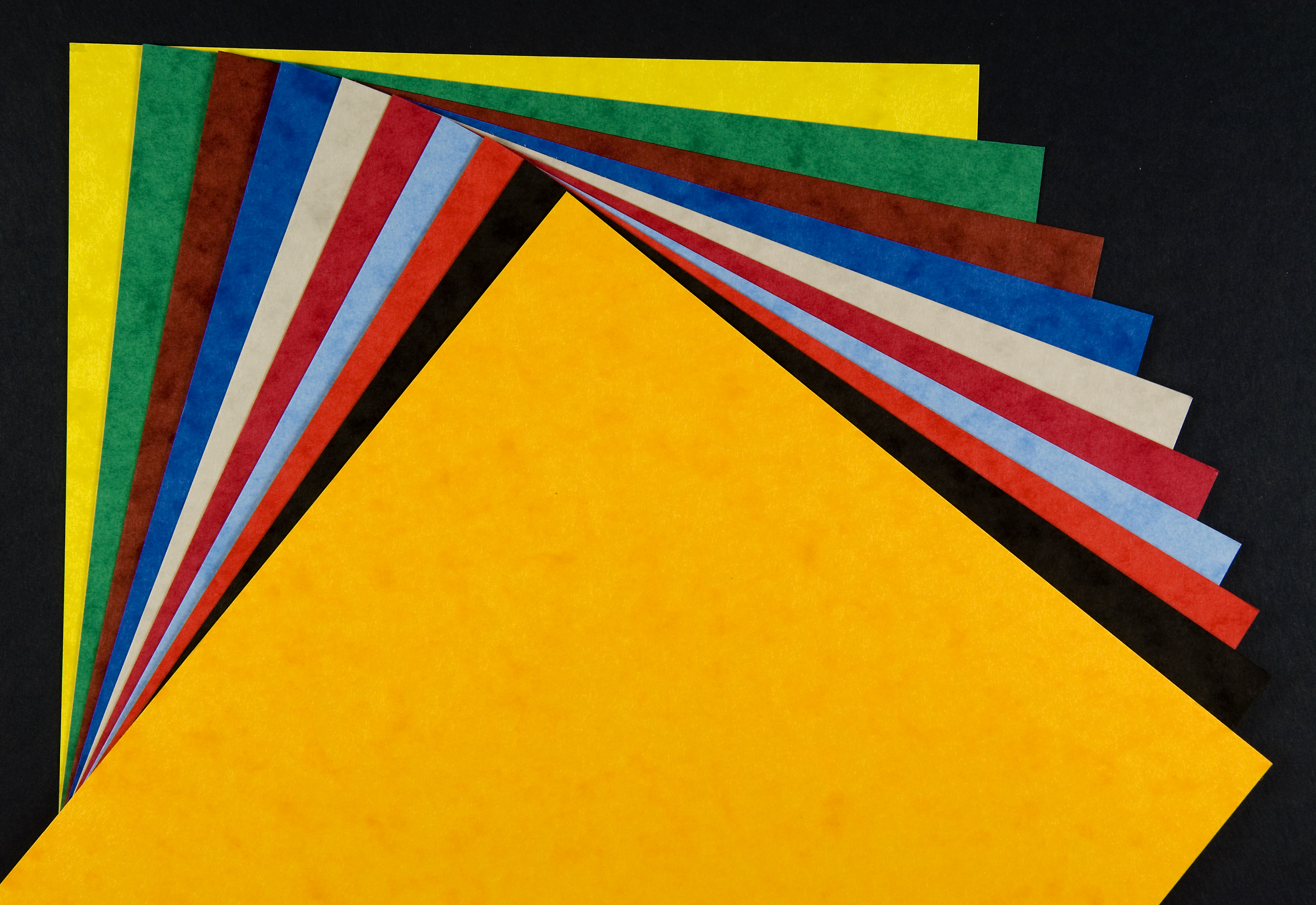 Textured craft card, in a variety of colours. The visible texture is a characteristic of this type of card.